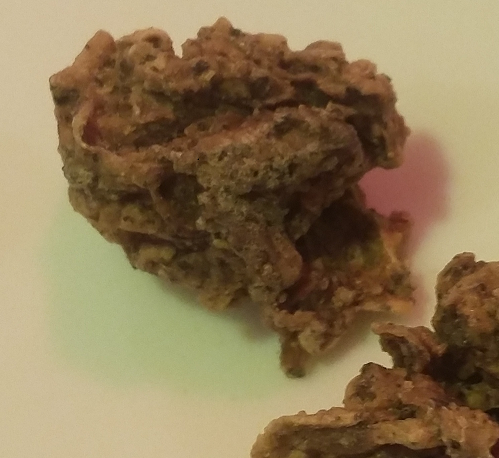 Masyaura